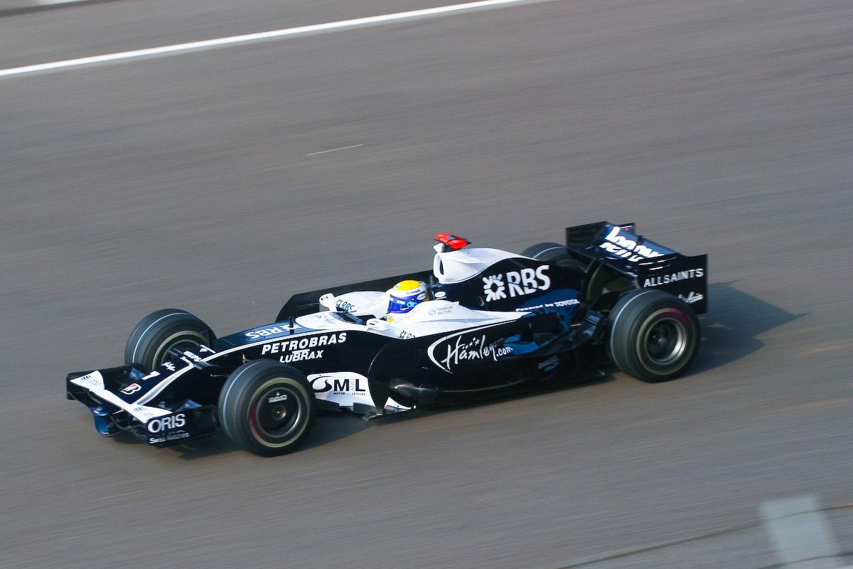 Nico Rosberg driving for WilliamsF1 at the 2008 Chinese Grand Prix.